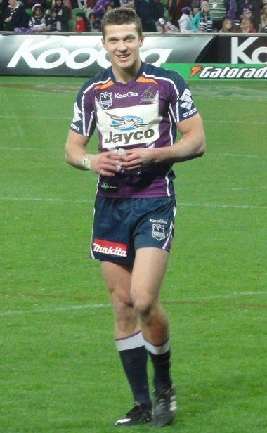 matt duffie enjoying the big win against the panthers in 2010